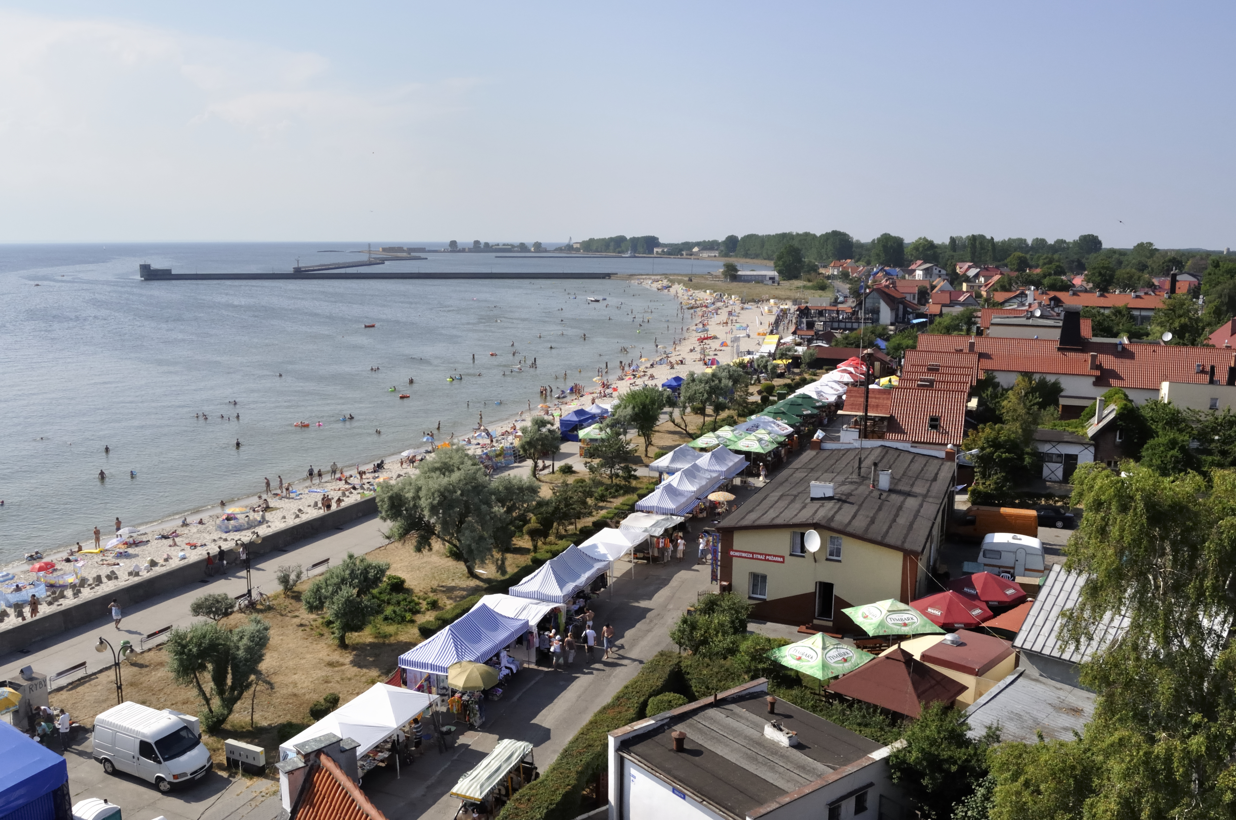 Picture taken in Hel after Wikimania 2010 conference.